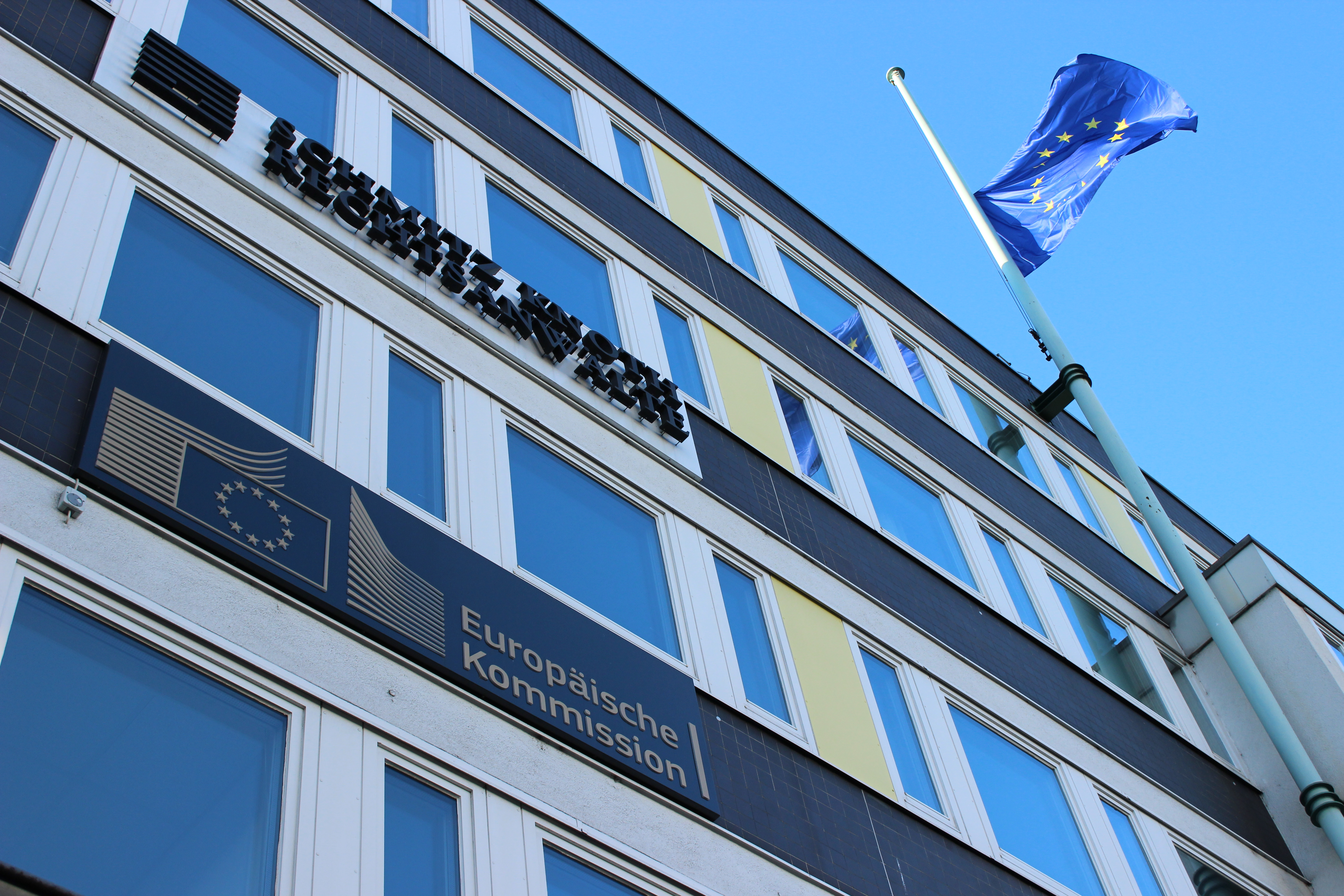 Sitz der Regionalvertretung der Europäischen Kommission in Bonn, Bertha-von-Suttner-Platz 2-4